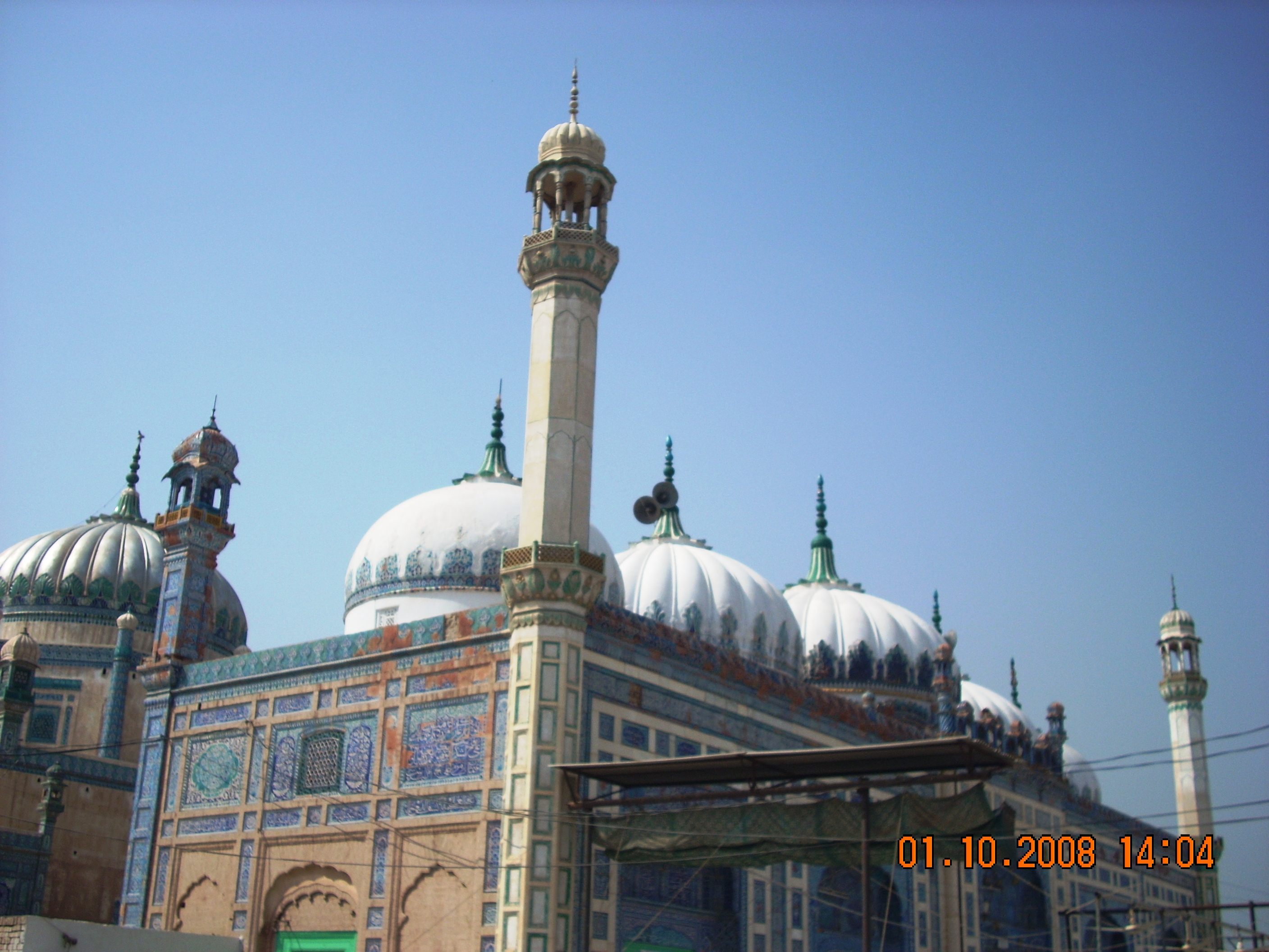 Five-dome mosque in Makhdoom Rashid (adjacent to a single-dome shrine); Multan District, Punjab, Pakistan